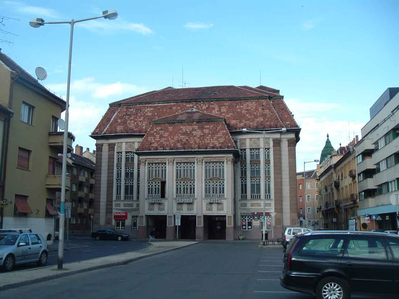 The Hotel Savaria in Szombathely, Hungary